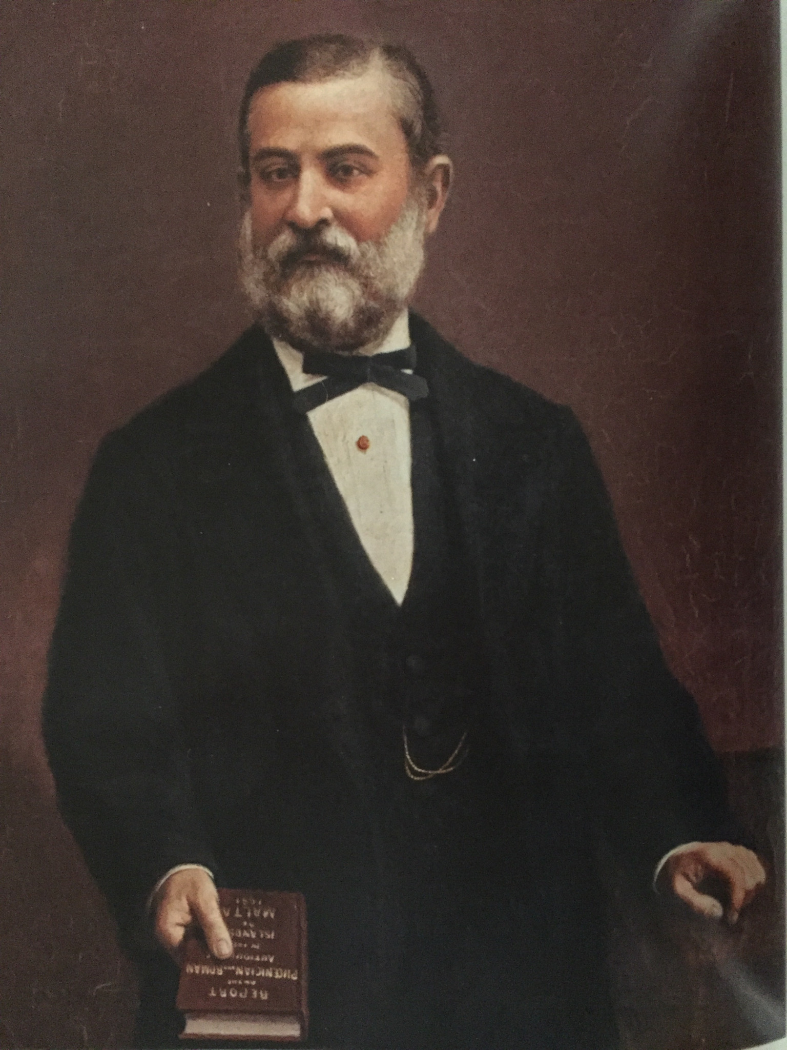 Photo of a 19th century portrait of A.A. Caruana holding his Report on the Phoenician and Roman Antiquities in the group of islands of Malta (1888)